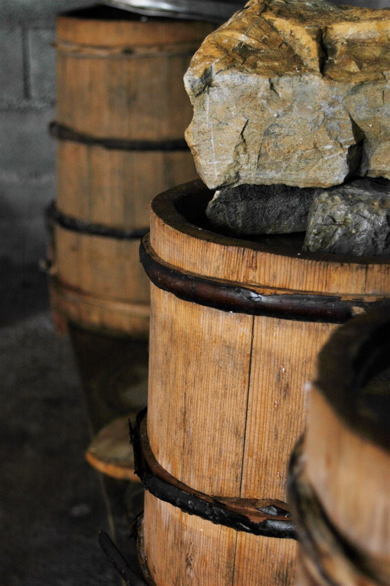 Project "Dicovering Pester" (Projekat "Otkrivanje Peštera"). Sunny winter landscape on the Pester plateau, in Serbia, with snow on mountain slopes and fields , villages and streams.